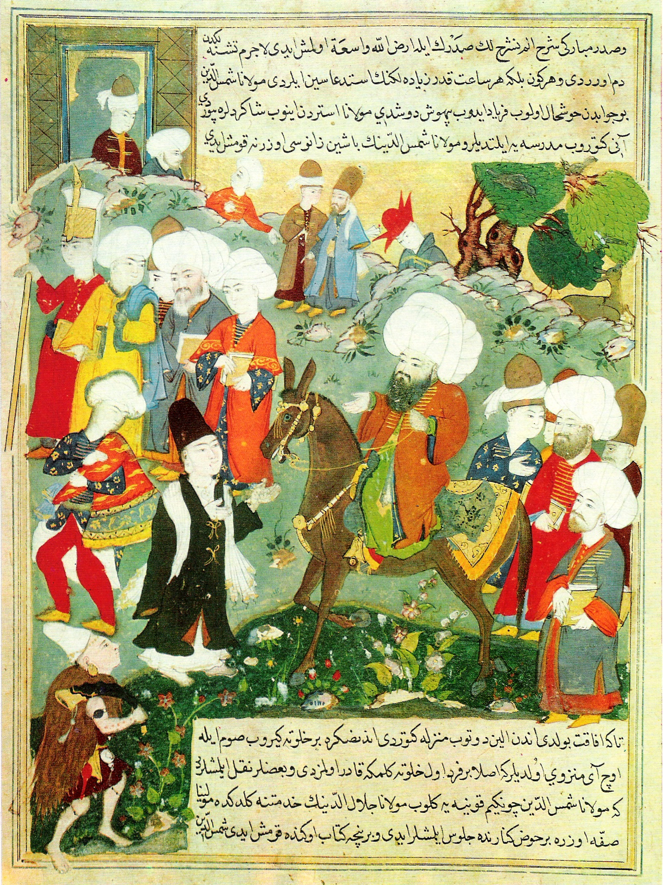 Folio from Jâmi al-Siyar by Mohammad Tahir Suhravardî, illustrating the meeting of Mavlana and Molla Shams al-Din in Konya